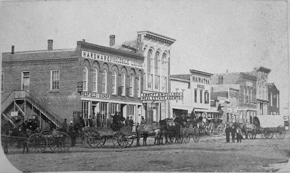 Street scene that shows various businesses in Humboldt, Kansas.